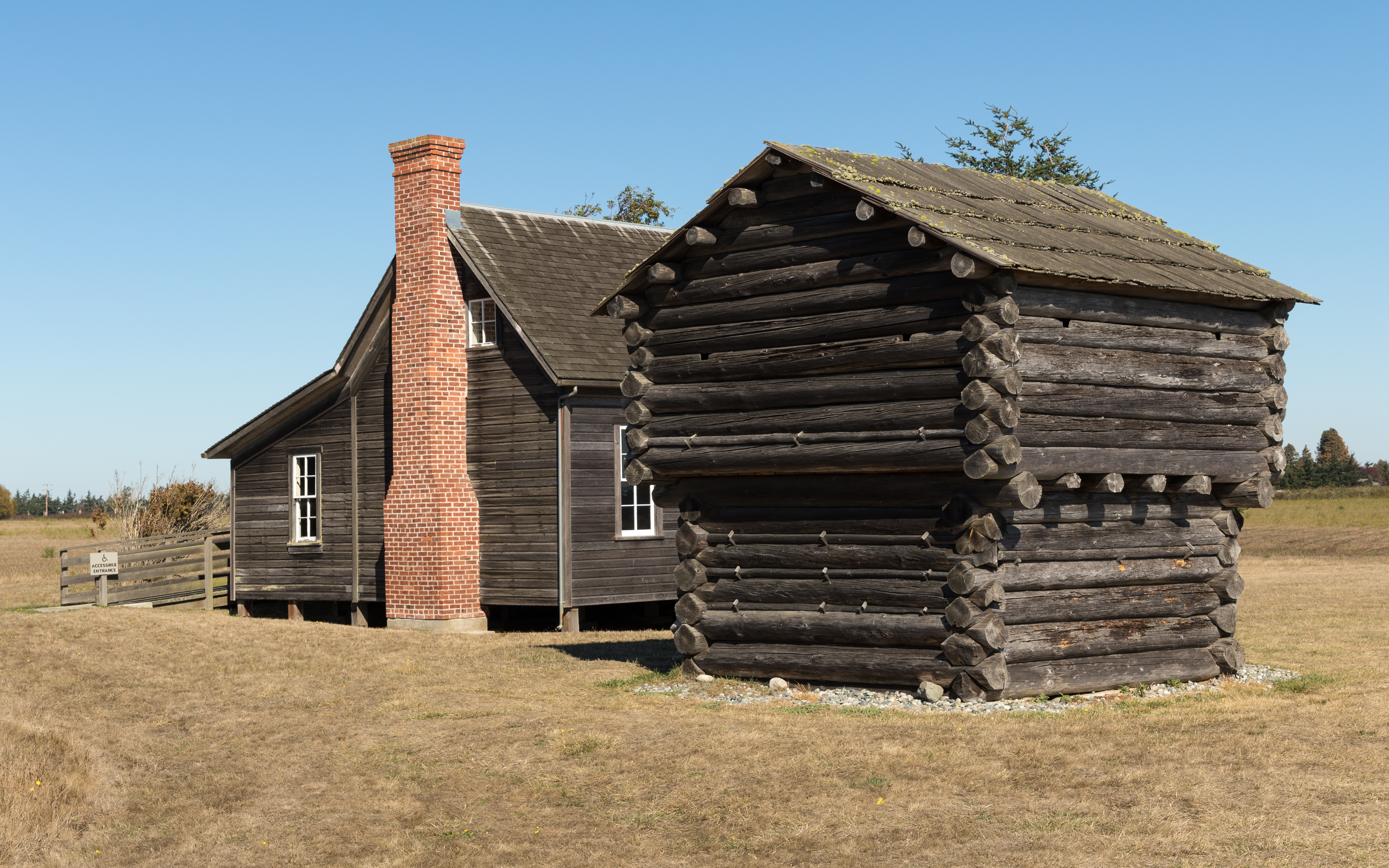 Jacob & Sarah Ebey House and Blockhouse. For more information cf Jacob & Sarah Ebey House (via National Park Service)